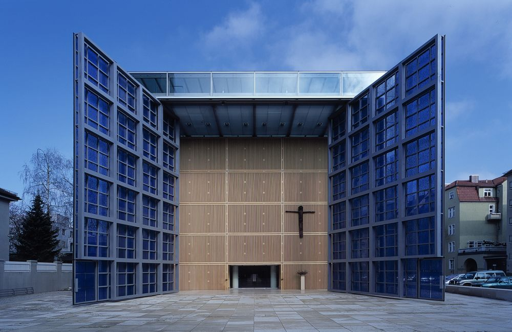 Sacred Heart Church in Munich